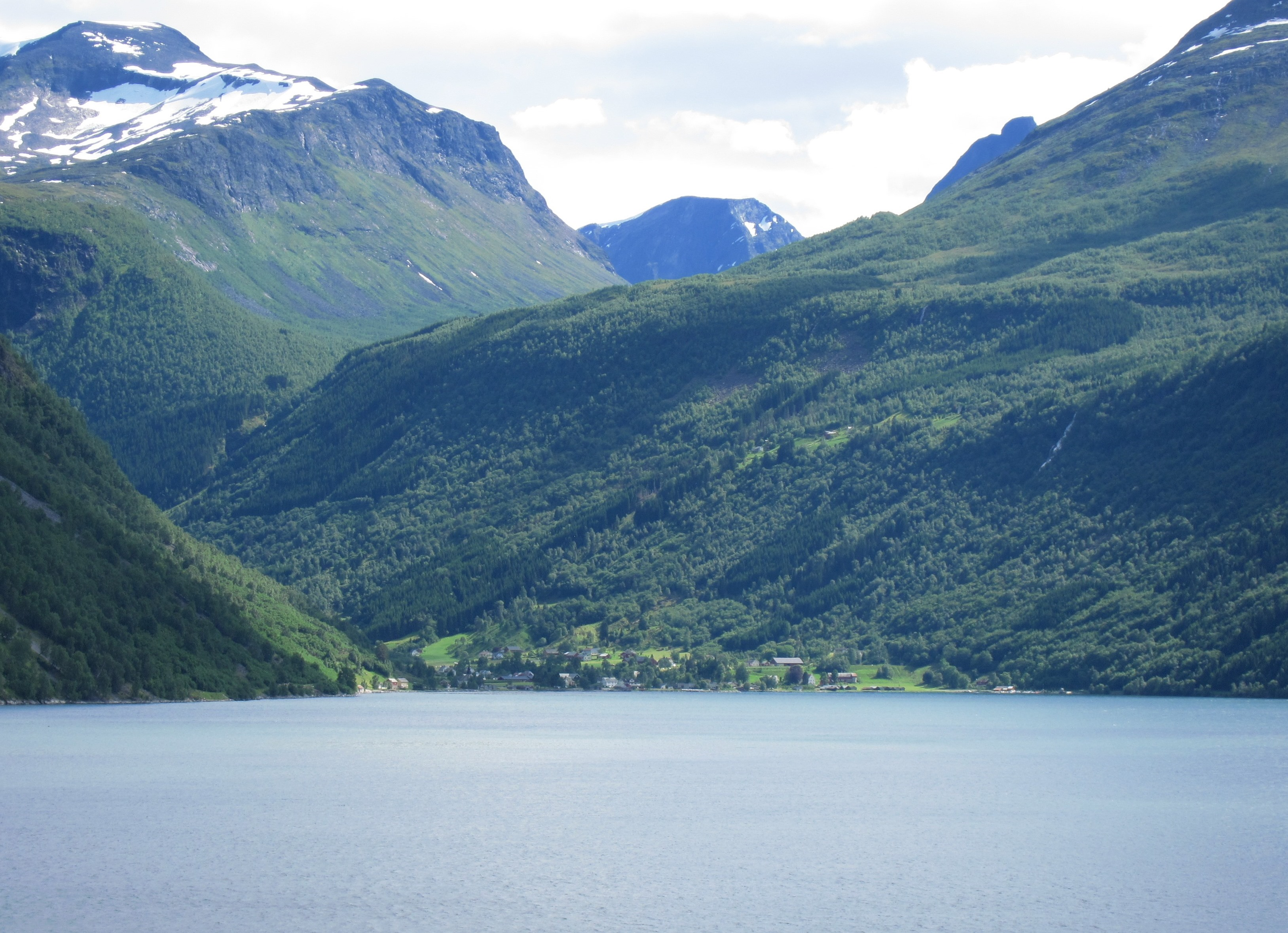 Norddal (Dalsbygda) seen across Norddalsfjorden from Linge, Norddal, Norway